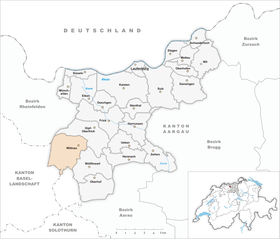 Municipality Wittnau